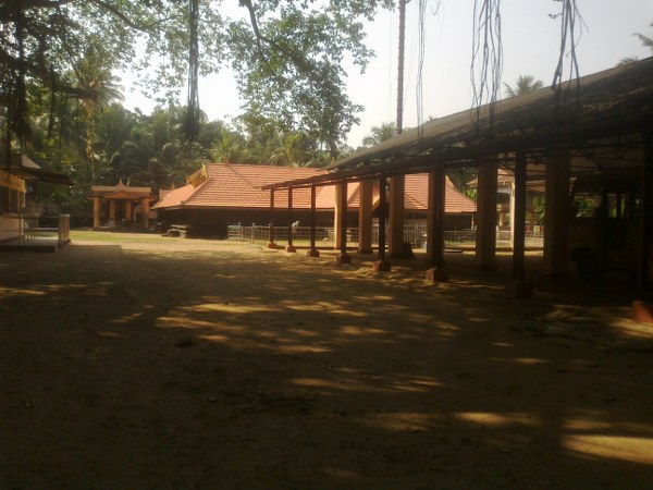 Thekkan Guruvayur Temple